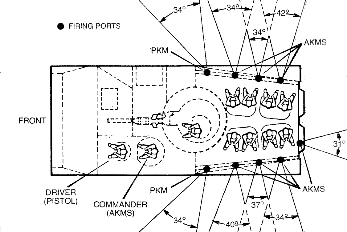 The firing arcs of the firing ports on the BMP-1 from a US army technical briefing dated 30 June 1977.